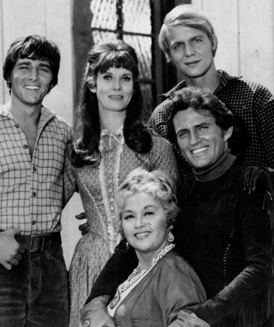 Cast photo from the television program Here Come the Brides. Clockwise from left: Bobby Sherman, Bridget Hanley, David Soul, Robert Brown, Joan Blondell.